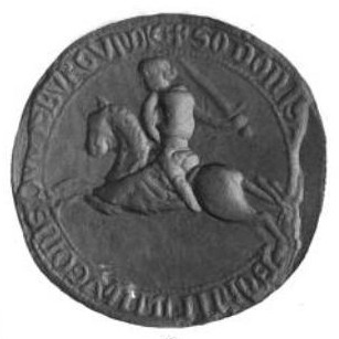 Eudes de Bourgogne (1230-1269)